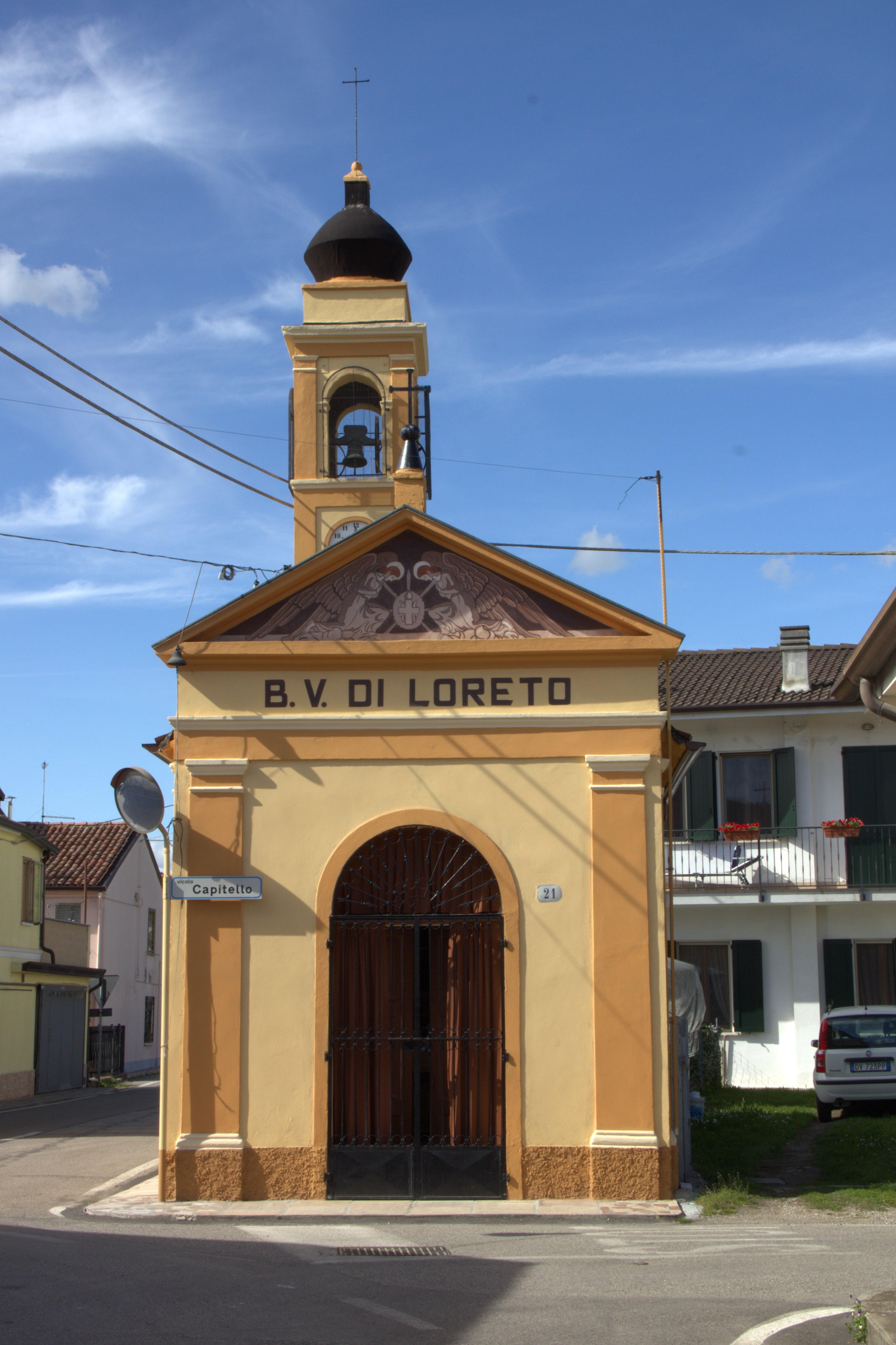 Mealra (RO) Oratory to the Virgin of Loreto